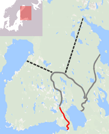 Map of the two-branch borders set in the treaty of Nöteborg in 1323.